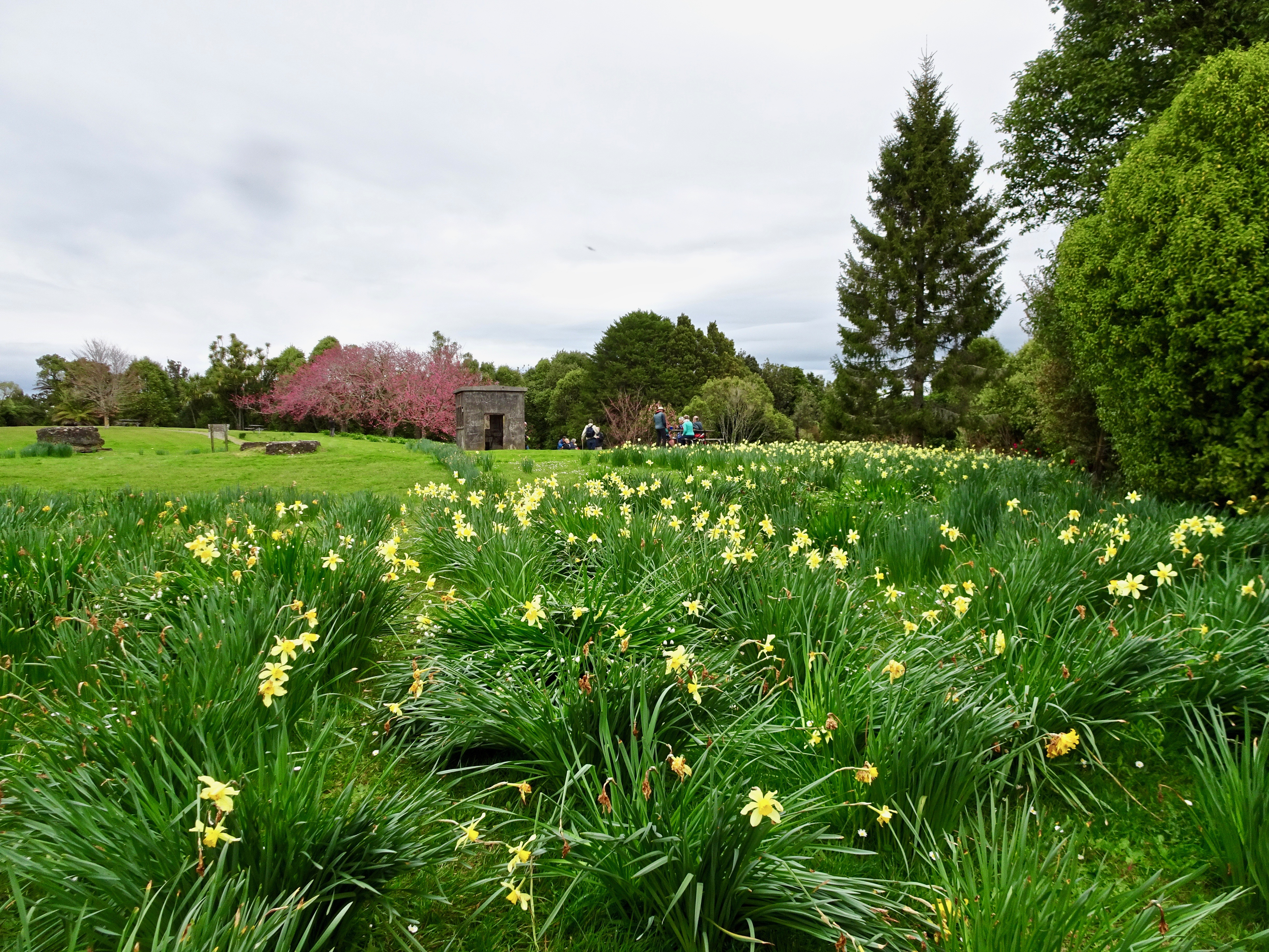 Remnants of the Sanatorium buildings and Sophia Thornton's 1890s garden planted